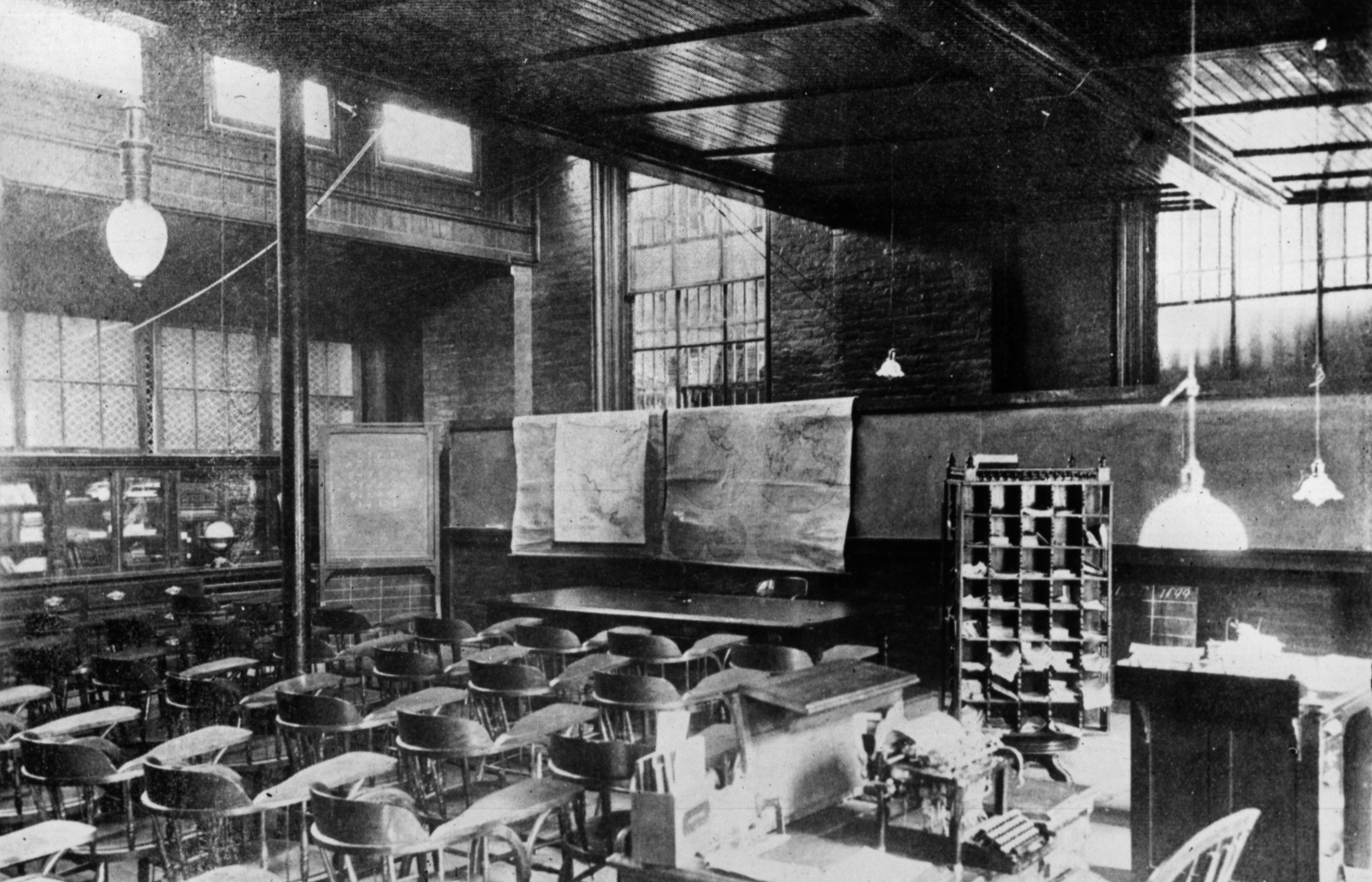 This is an image of prison education in NSW. It was obtained from a box donated to the State Archives and Records Authority of New South Wales by Corrective Services NSW. The box was labelled '(Glass) Negatives c.1880s-1960s' and the image was assigned the identifier '9353a'. The exact prison in NSW that this was taken at was unknown. The image has been reduced to 10% of its original dimension, and has been cropped to remove borders.